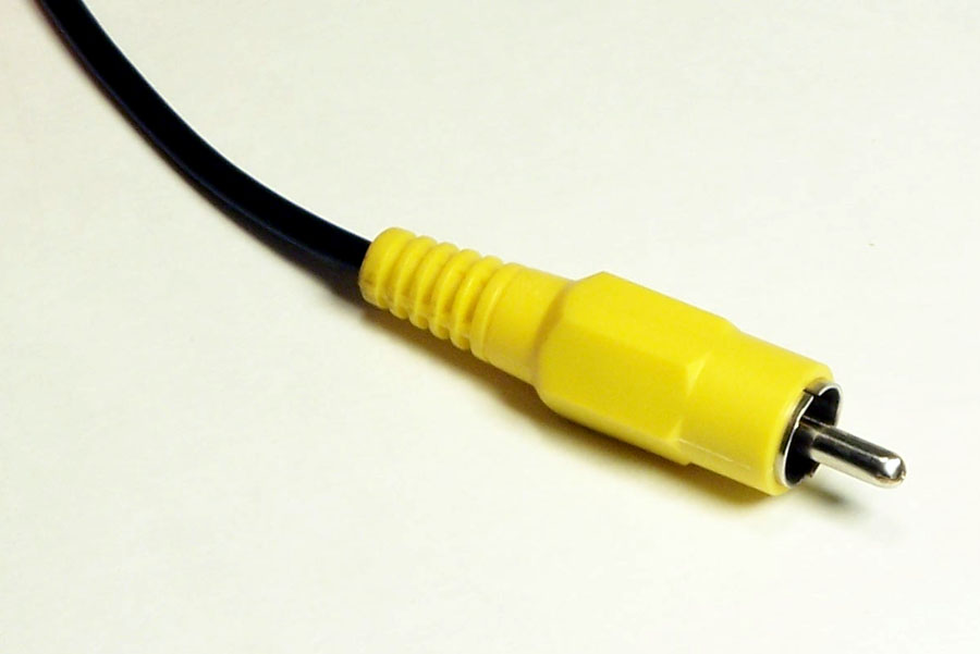 Composite video cable with RCA connector